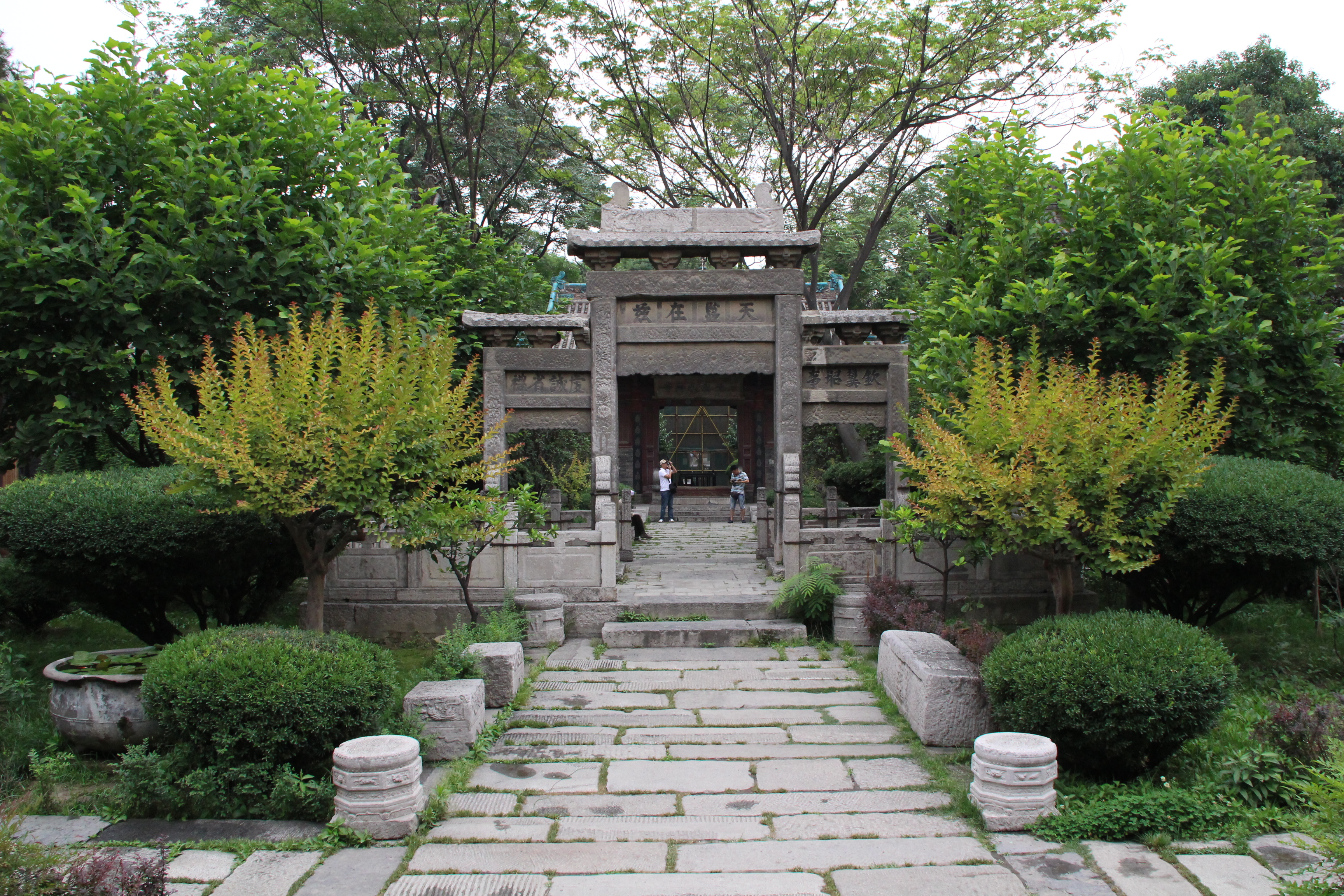 The second courtyard of the Great Mosque of Xi'an